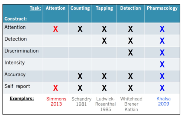 This table illustrates the most common tasks that are used to assess cardiovascular interoception, broken down by the corresponding facets that they test. The exemplars at the bottom refer to specific studies or researchers who developed the task.